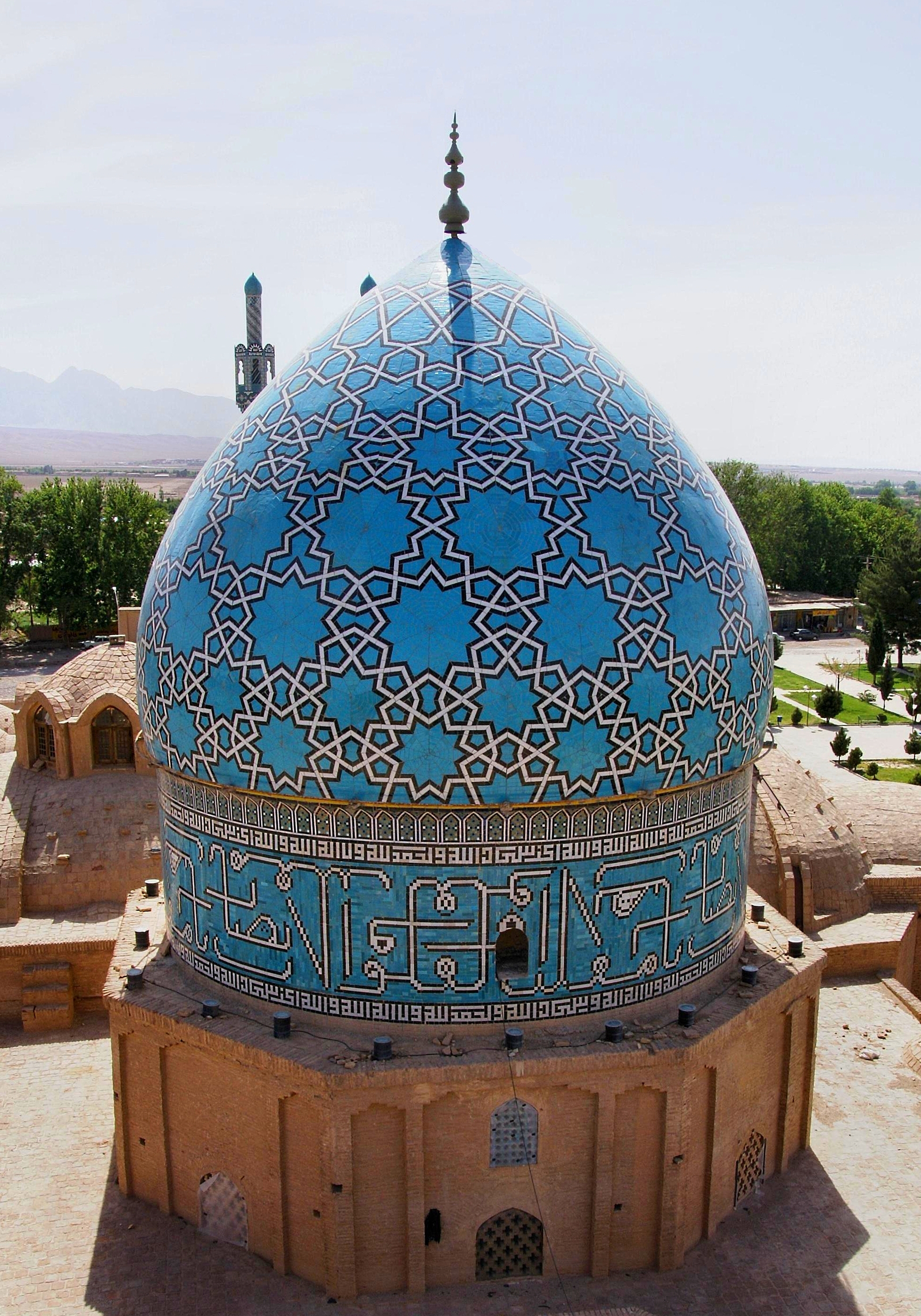 Tiled dome and minarets, with cupolas, of the adobe Shrine of Shah Nematollah Vali — in Mahan, Kerman province, southern Iran.